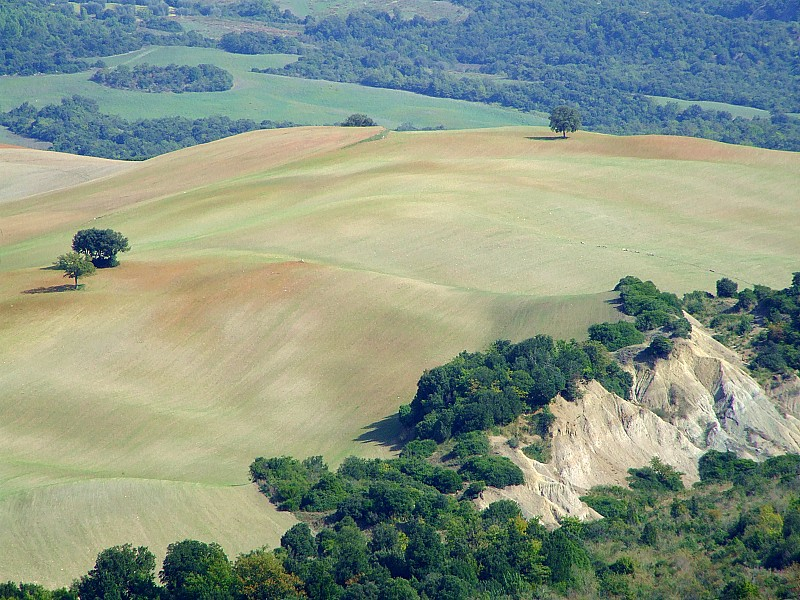 A typical Tuscany landscape, near the village of Monte Amiata.